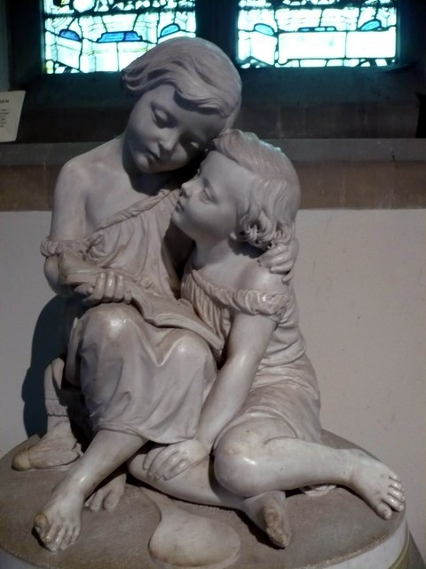 The Hardy Children. Monument in St. Mary's church This is unique as it is the only church monument to show children's toys. There is a shuttlecock, racquet and the book shows an illustration from Babes in the Wood. The Hardy family owned Chilham castle during part of the 19th century.